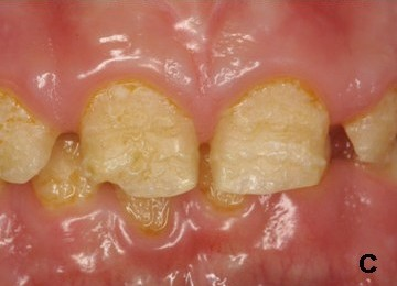 amelogenesis imperfecta, hypoplastic type. Note the horizontal banding pattern of enamel hypoplasia.